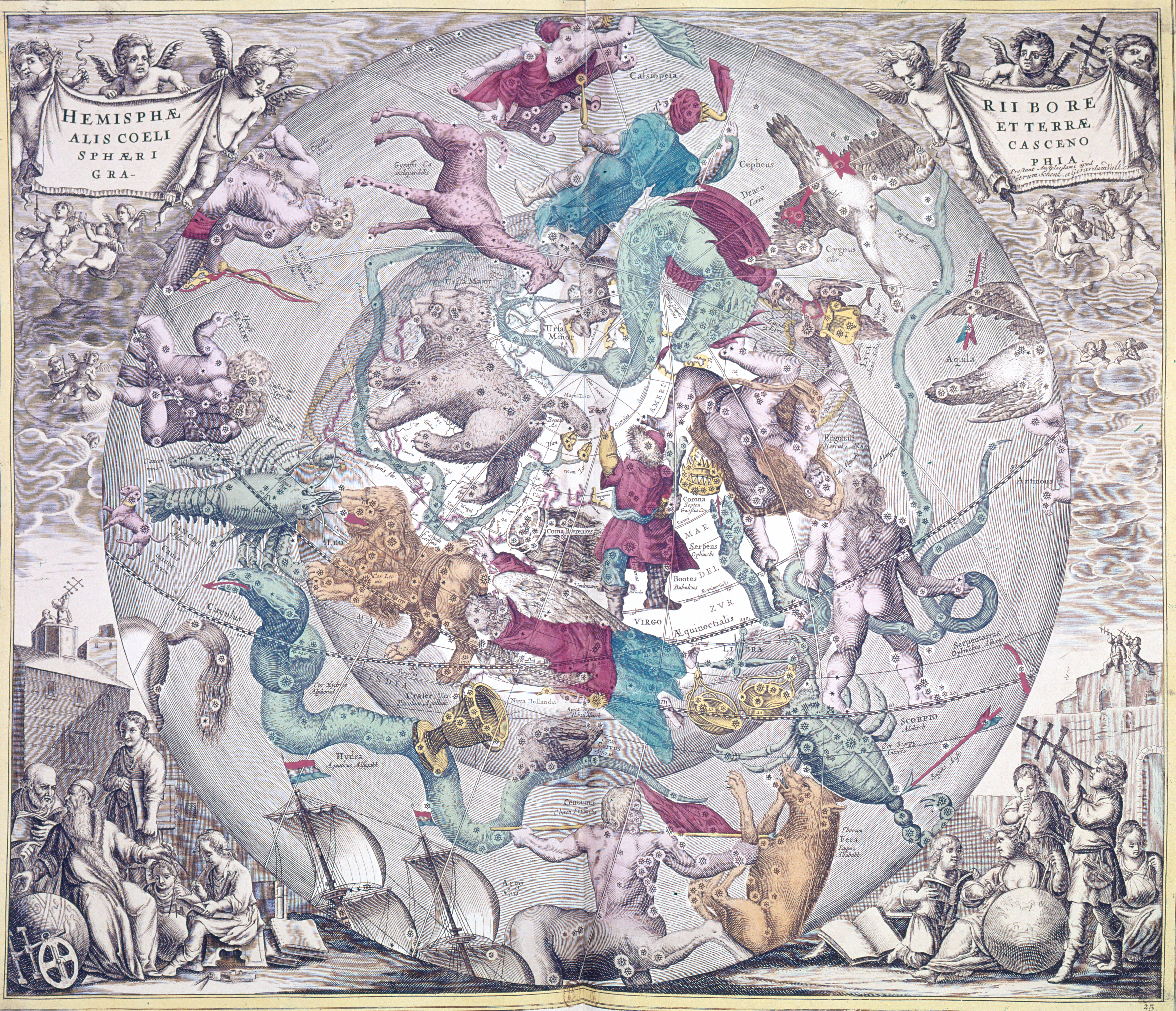 Hemisphae Alis Coeli Sphaeri Grarii Bore et Terre Casceno Phia: A hand-coloured engraving of a celestial map with constellations and signs of the Zodiac.